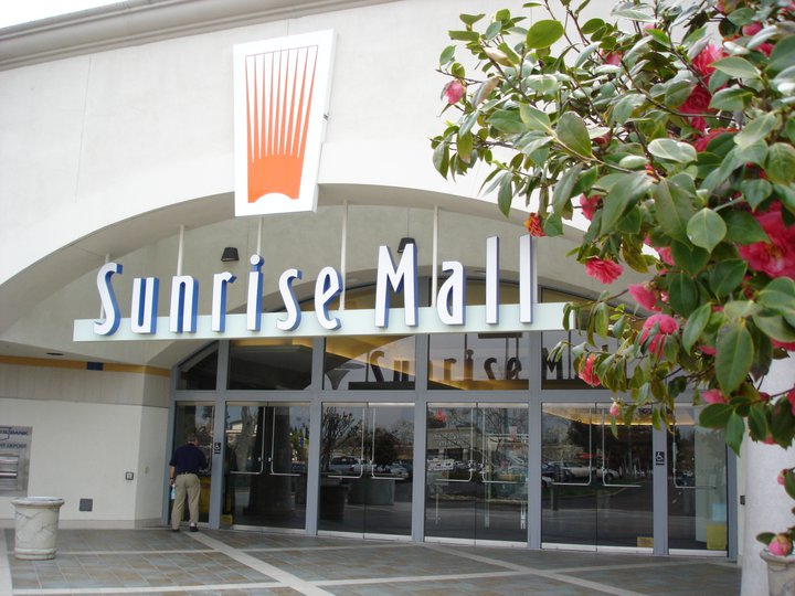 Outside of Sunrise Mall, Citrus Heights, CA